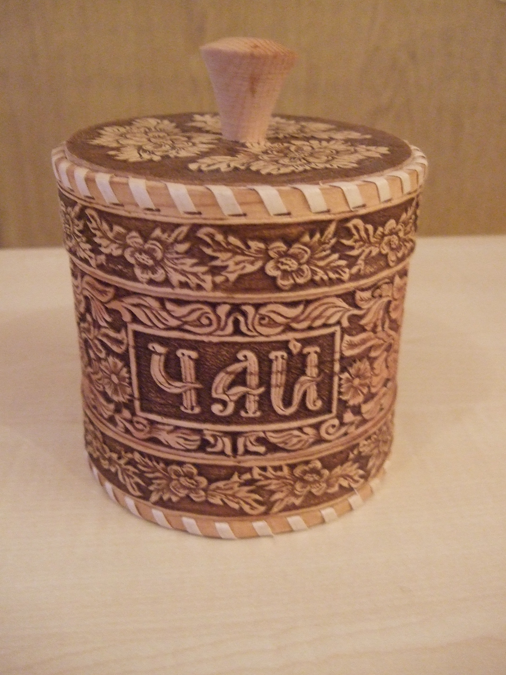 russian tuyes (tuyesok) from birch bark